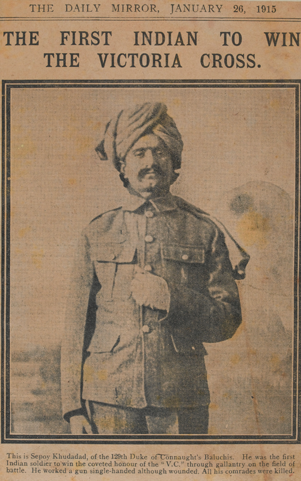 Newspaper story about Sepoy Khudadad Khan, the first Indian recipient of the Victoria Cross, the British Army's highest war-time award for gallantry.